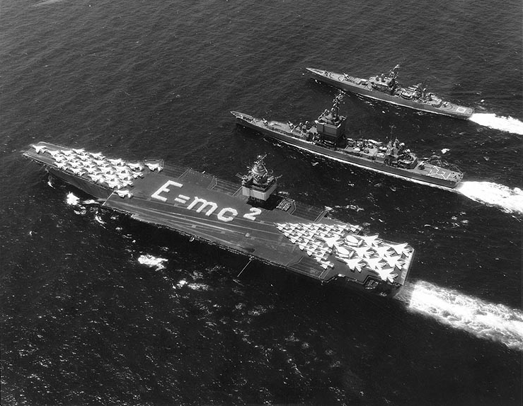 The U.S. Navy nuclear powered ships USS Enterprise (CVAN-65), USS Long Beach (CGN-9), and USS Bainbridge (DLGN-25), in the Mediterranean Sea during "Operation Sea Orbit", in 1964.